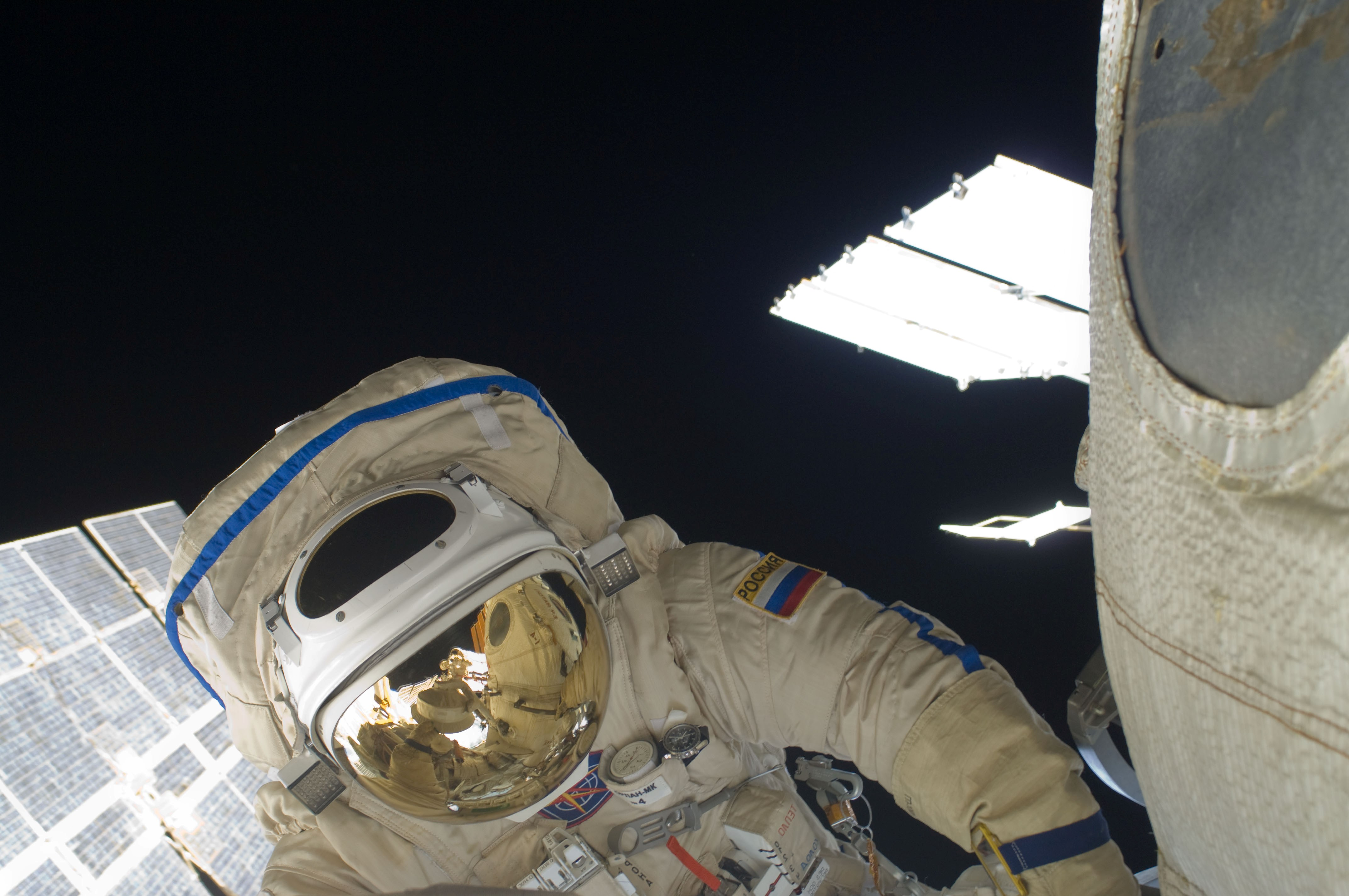 Russian cosmonauts Maxim Suraev and Oleg Kotov (out of frame), both Expedition 22 flight engineers, participate in a session of extravehicular activity (EVA) as maintenance and construction continue on the International Space Station. During the spacewalk, Suraev and Kotov prepared the Mini-Research Module 2 (MRM2), known as Poisk, for future Russian vehicle dockings. Suraev and NASA astronaut Jeffrey Williams, commander, will be the first to use the new docking port when they relocate their Soyuz TMA-16 spacecraft from the aft port of the Zvezda Service Module on Jan. 21.